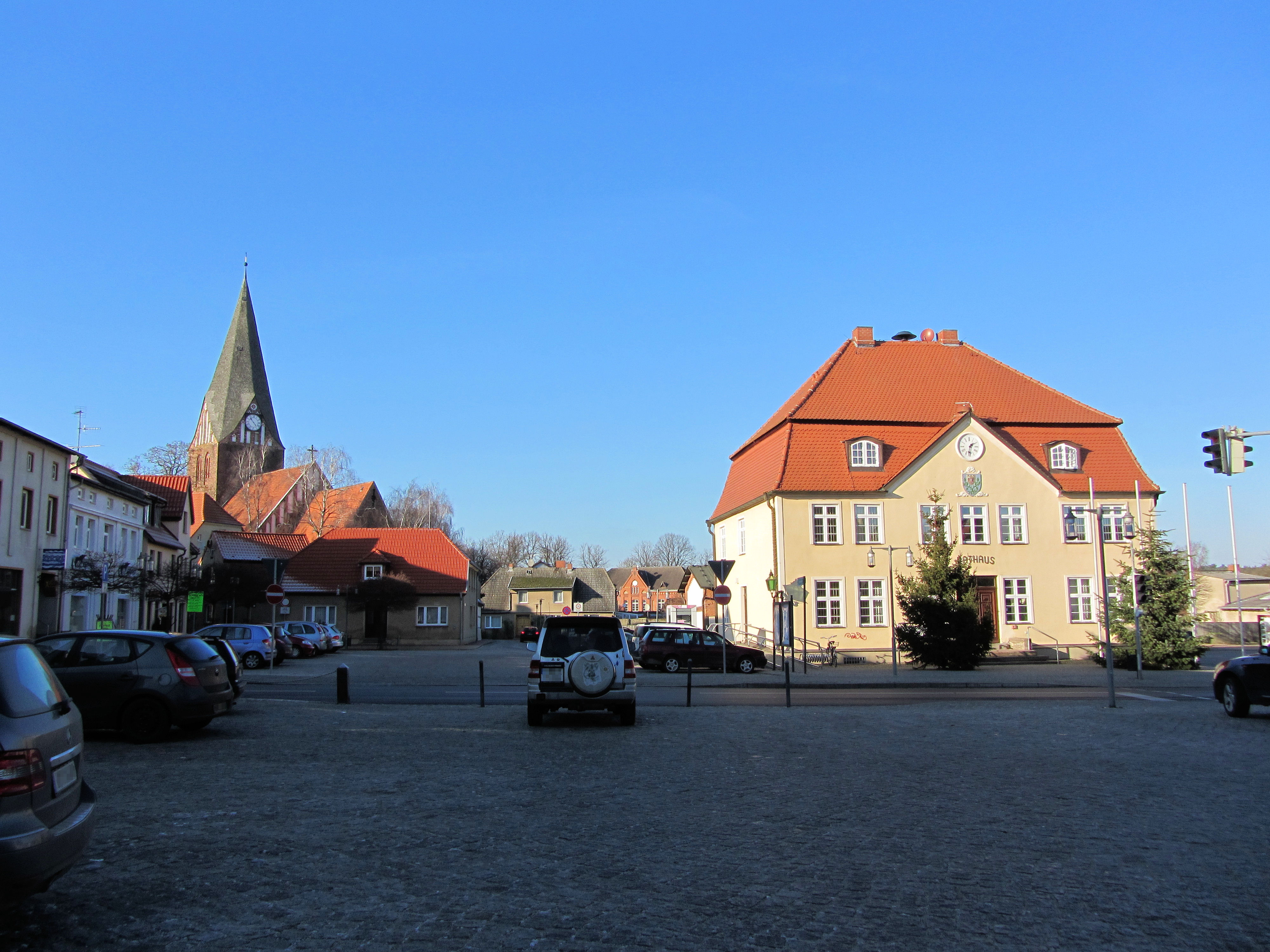 Church, market place, town hall in Neubukow, district Rostock, Mecklenburg-Vorpommern, Germany